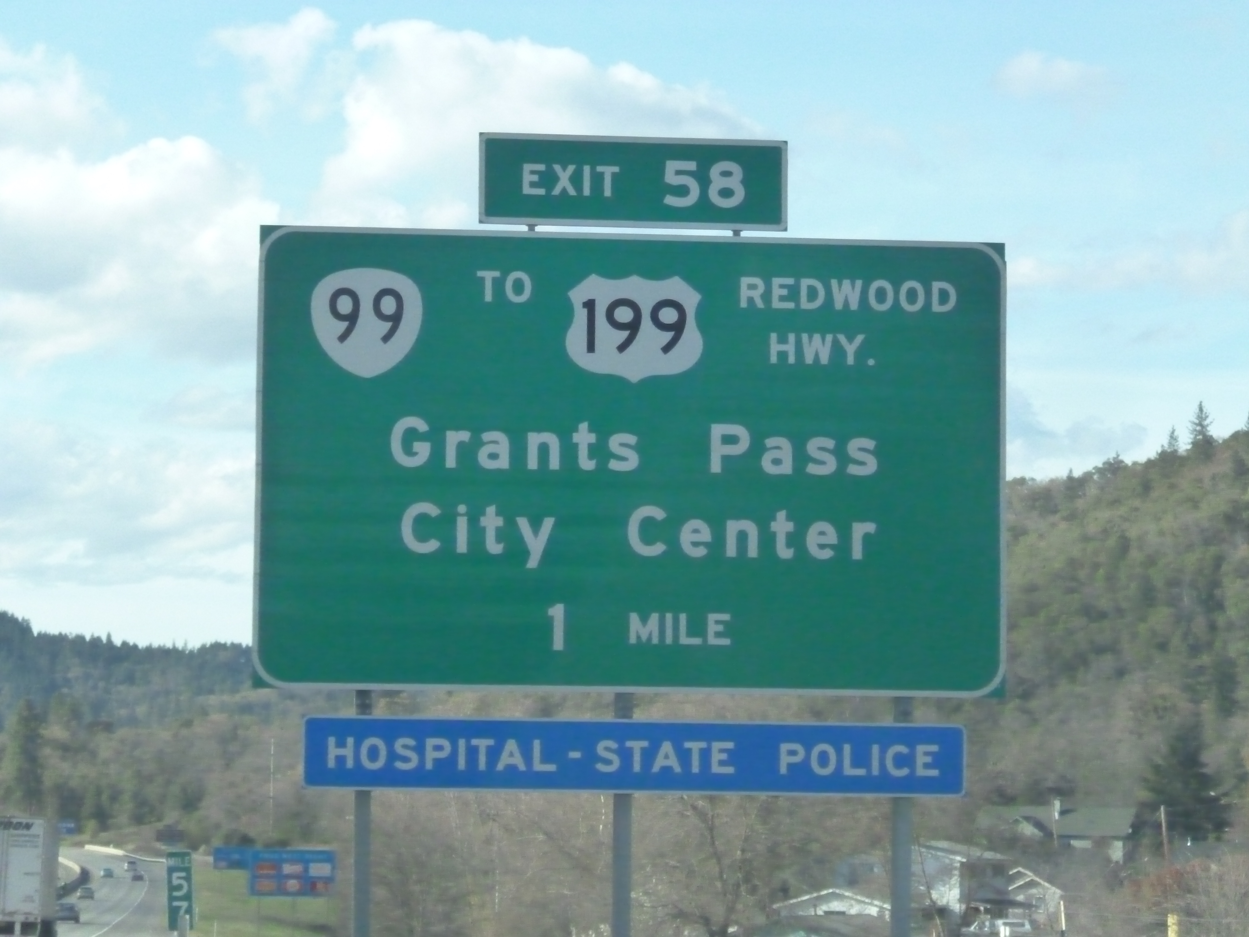 Exit sign on Interstate 5 for U.S. Route 199 in Grants Pass, Oregon.